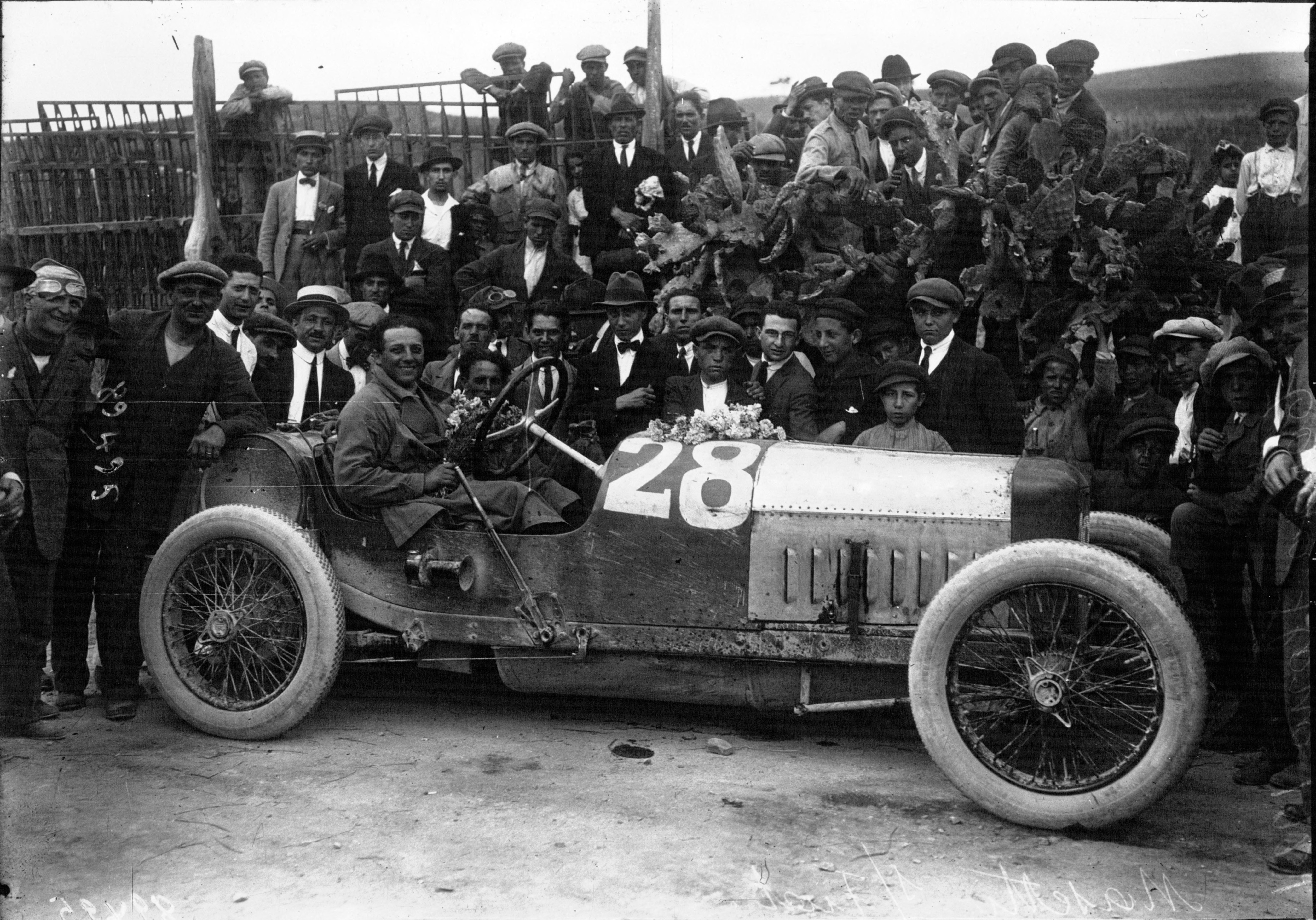 Giulio Masetti in his Fiat at the 1921 Targa Florio.